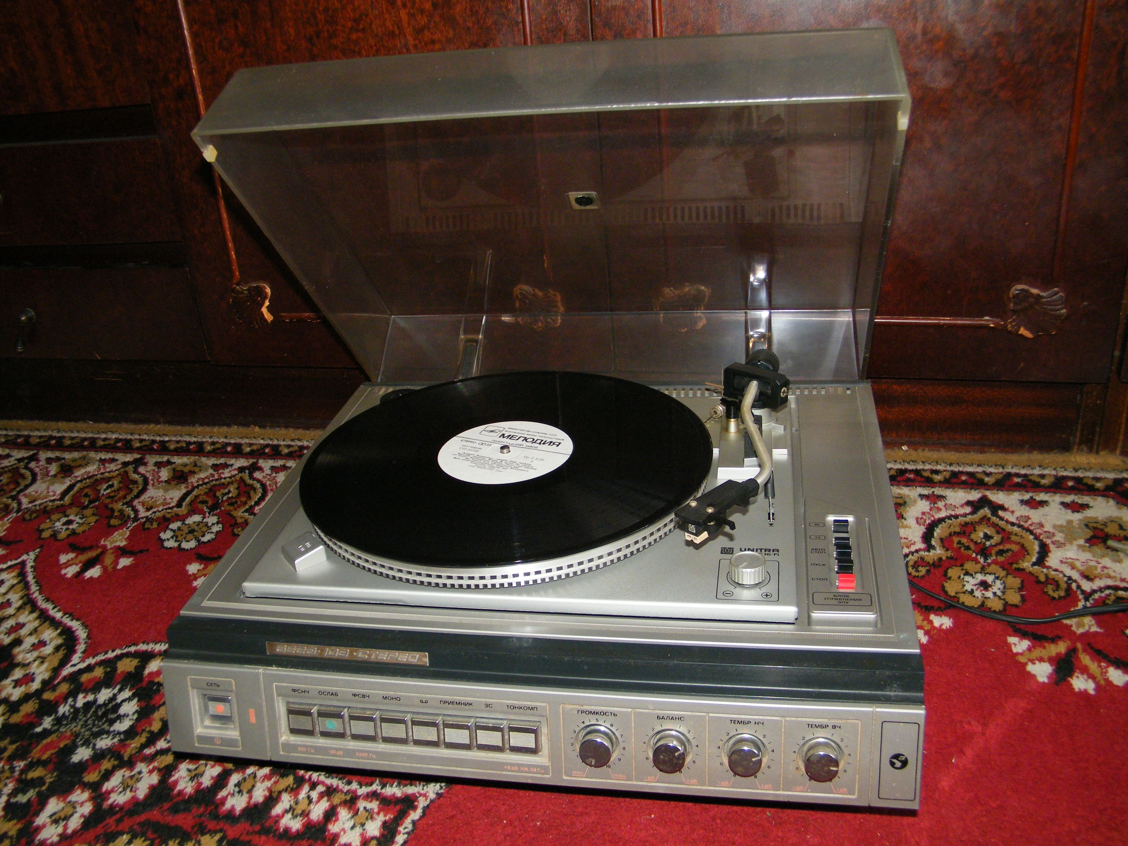 Vega 109 stereo grammophone, USSR, 1980s